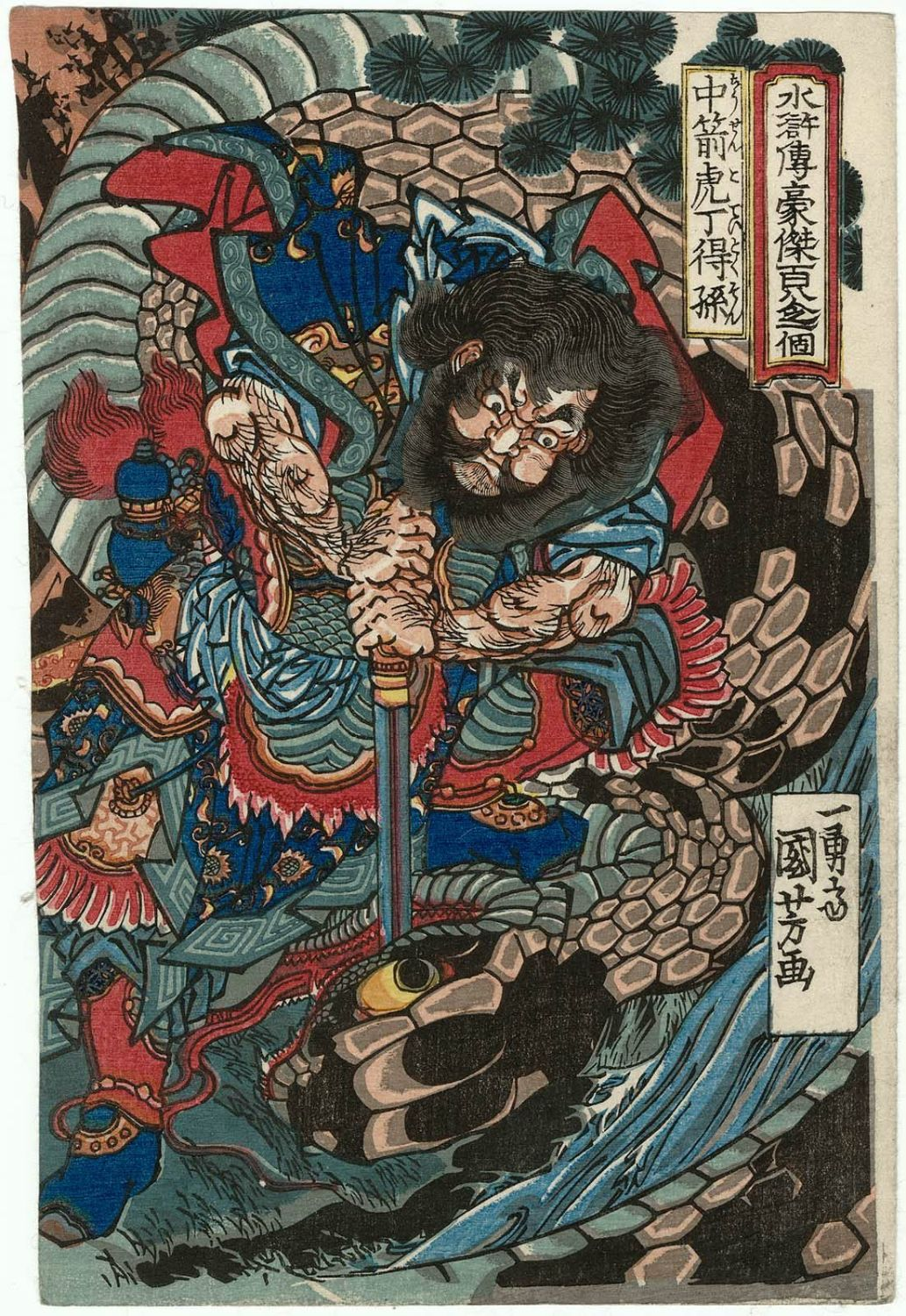 Ding Desun (丁得孫)